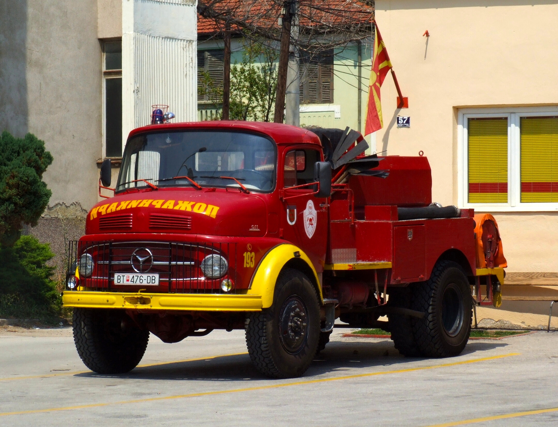 Fire engine in Bitola, Macedonia - Mercedes 911